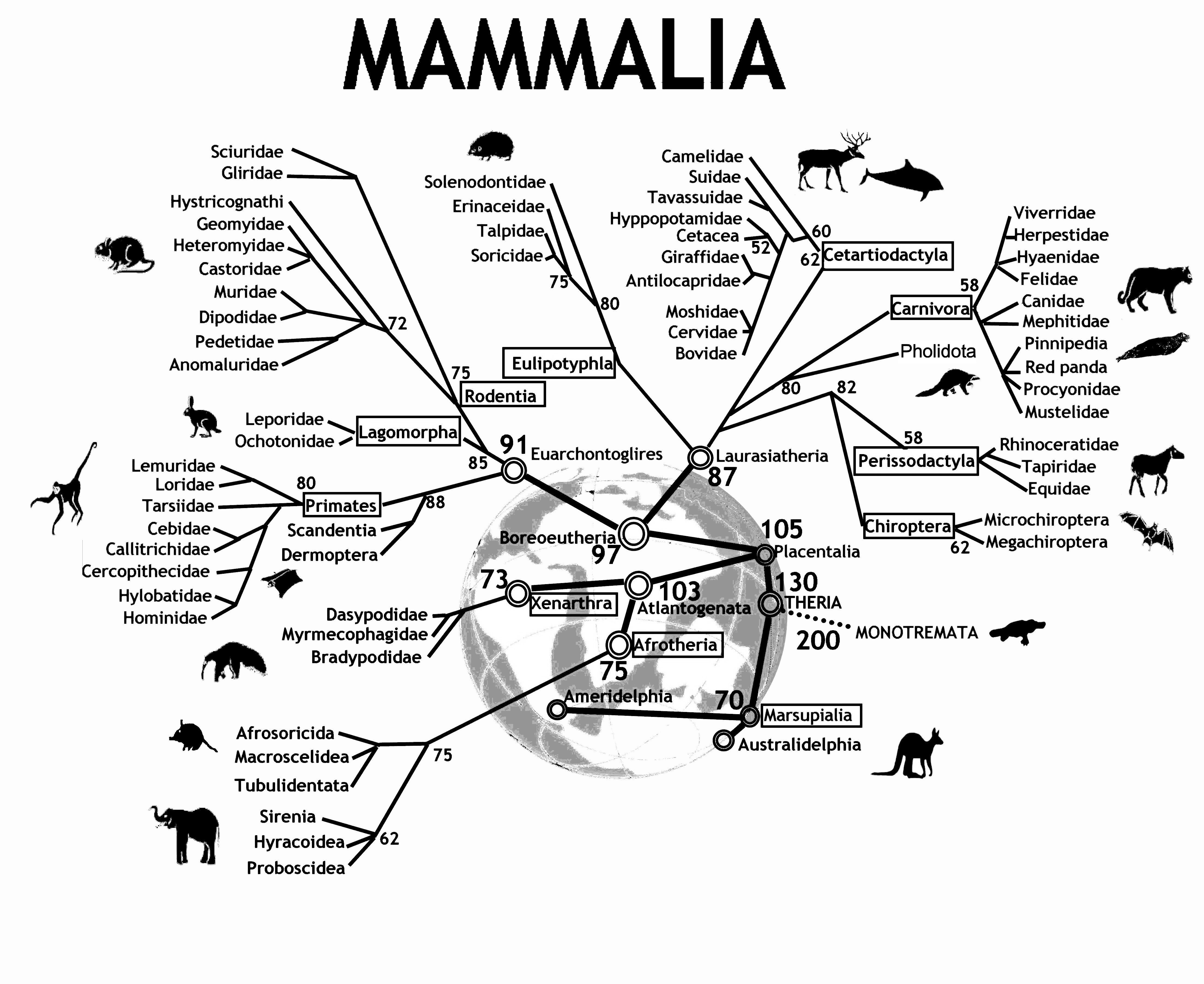 An evolutionary tree of mammals. The tree depicts historic divergence relationships among the living orders of mammals. The phylogenetic hierarchy is a consensus view of several decades of molecular genetic, morphological and fossil inference. Double rings indicate mammalian supertaxa, numbers indicate the possible time of divergences.